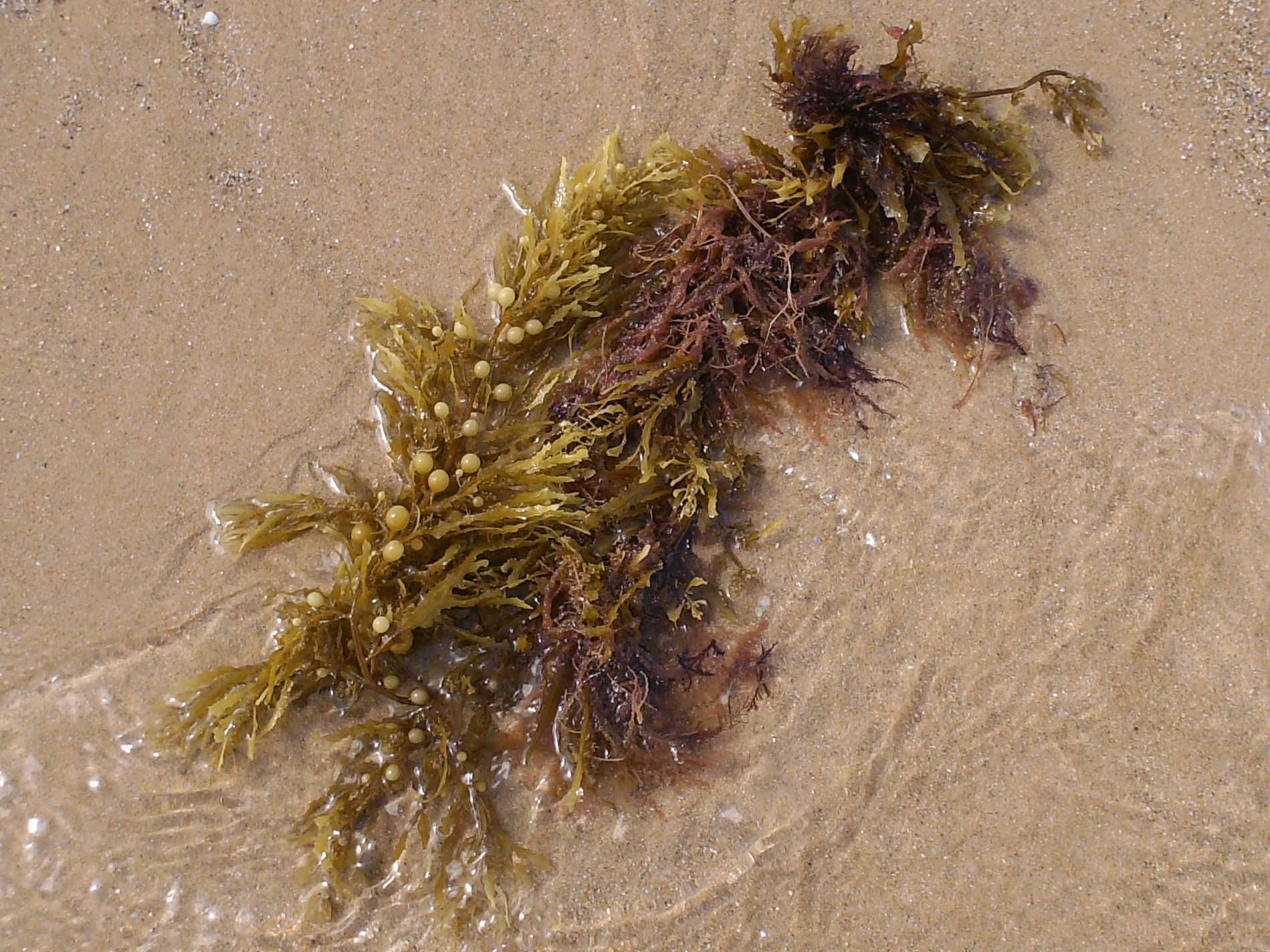 Japweed, or Japanese Wireweed (Sargassum muticum) stranded on the shore. This species is highly invasive: it remains alive after being detached from rocks (for instance after a storm), and may reattach itself somewhere else after being carried away by water currents. Picture taken on Baleal, Peniche, Portugal.